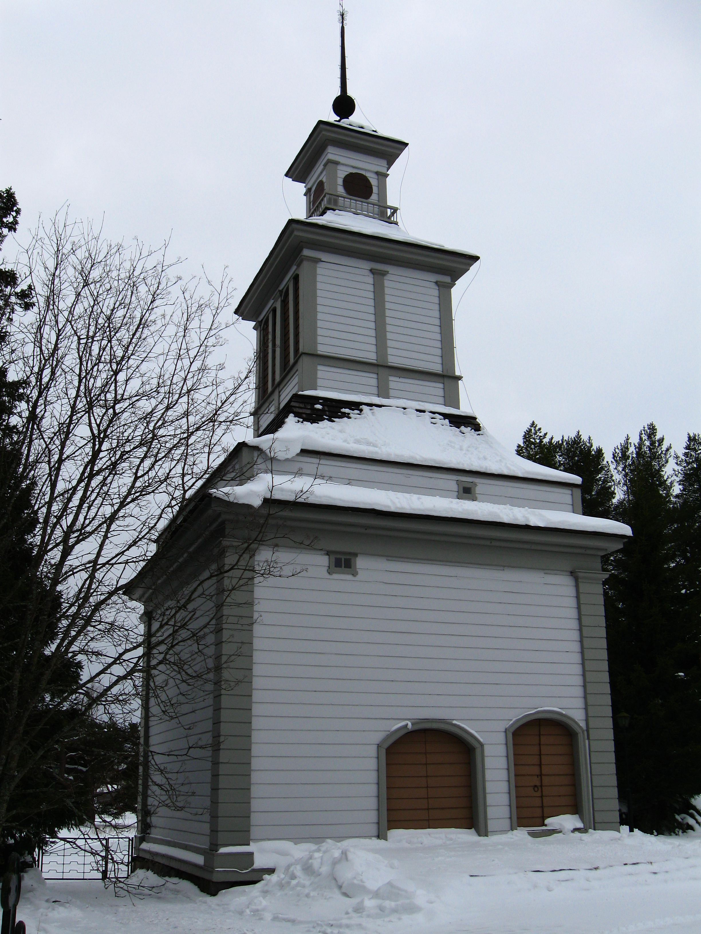 The belltower of the church of Siikajoki, Finland.